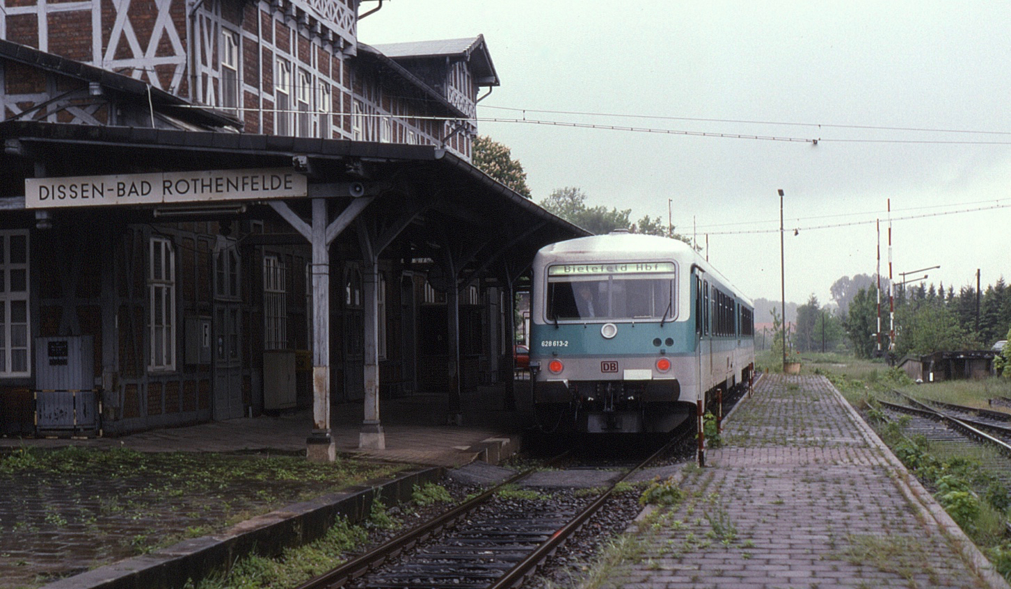 628.613 on train RB7825, 11:48 Dissen-Bad Rothenfelde to Bielefeld Hbf on 25 May 1996. At the time of this visit, this was the terminus of the through line from Bielefeld through to Osnabrück. The line was cut back to a branch in 1984 and re-opened back to a through a line again in 2005.